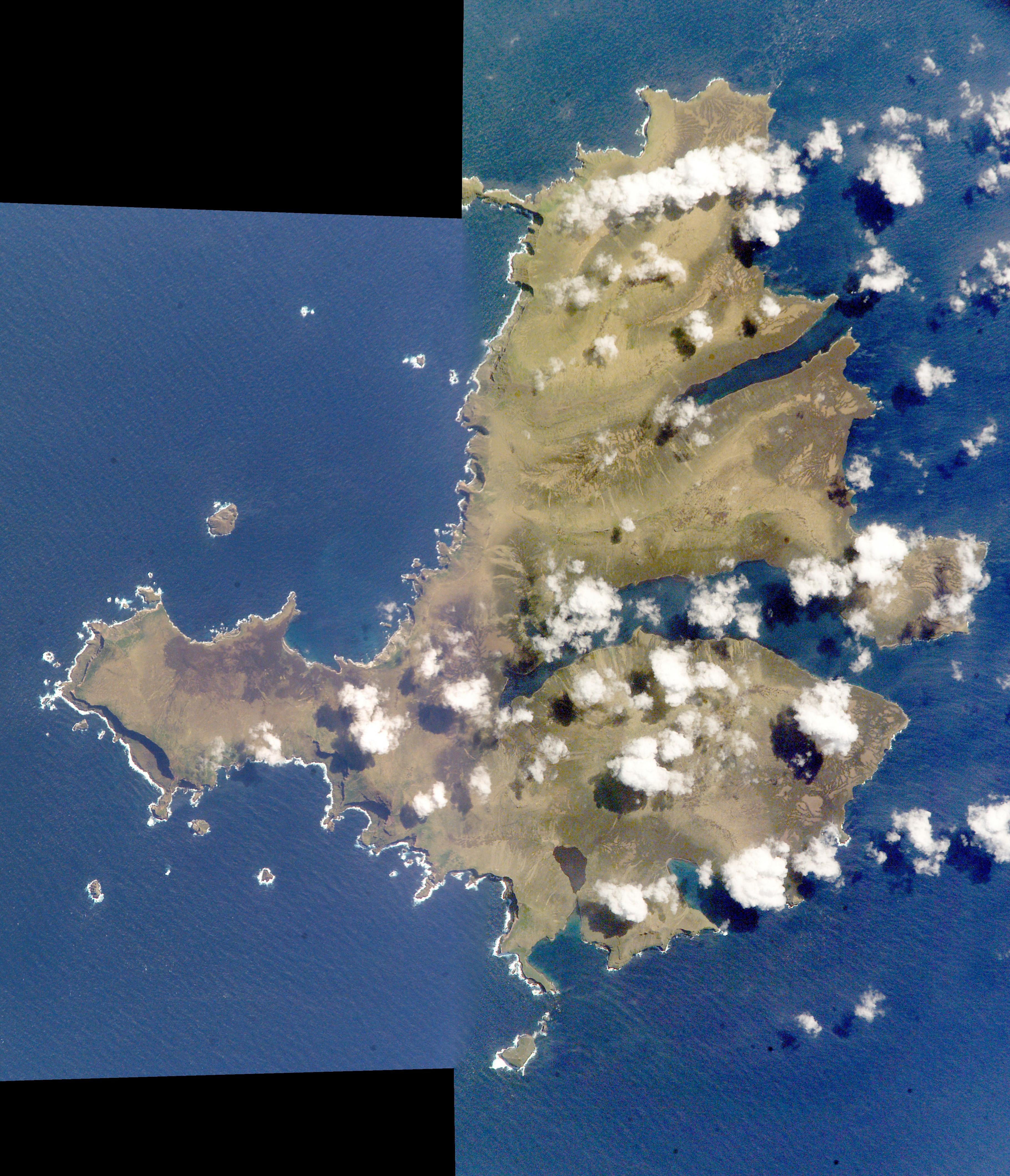 Mosaic of three images of Campbell Island from the International Space Station.